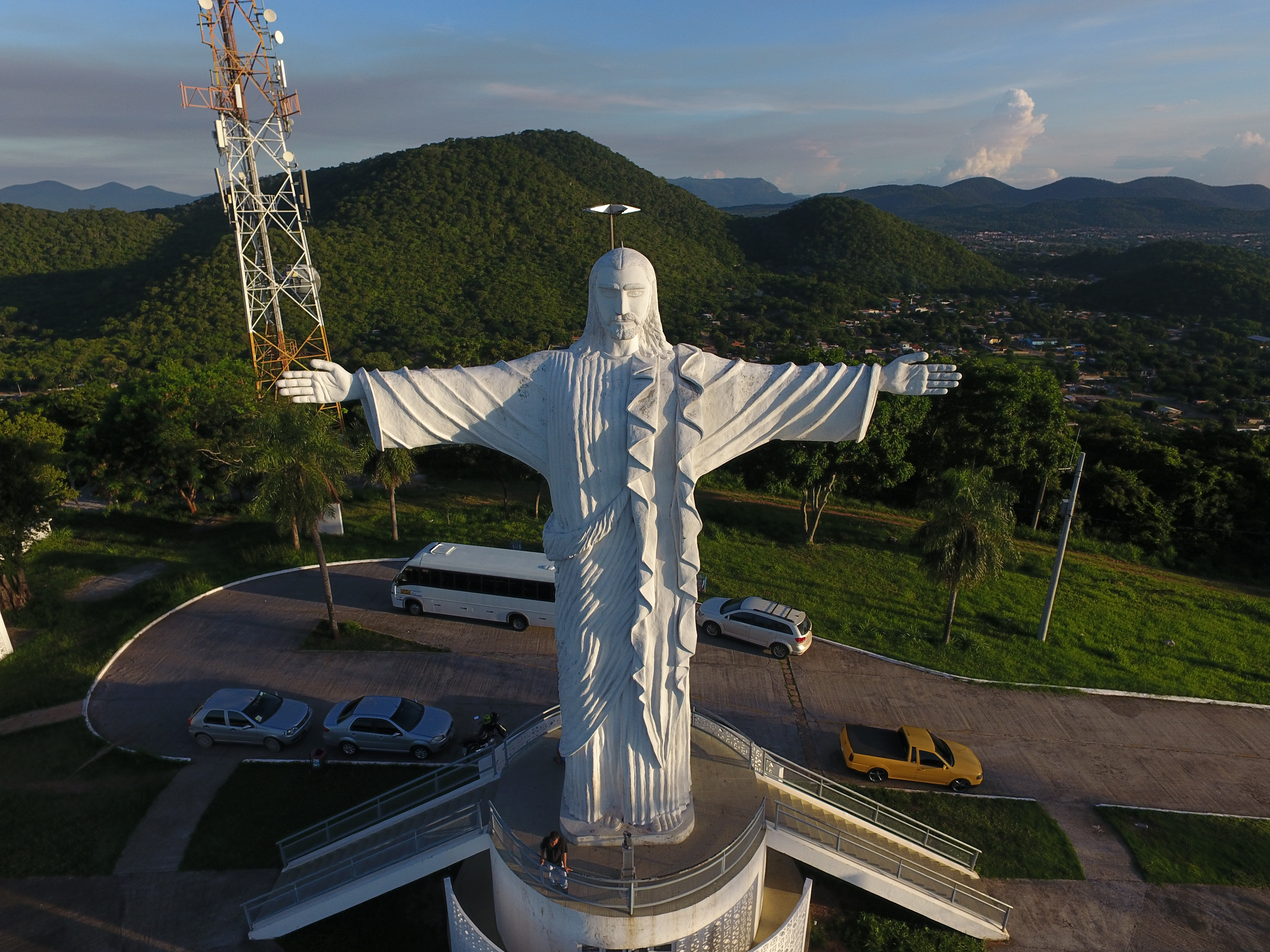 Aerial view of the statue, Cristo Rei do Pantanal, which overlooks the town of Corumbá in Mato Grosso do Sul, Brazil.